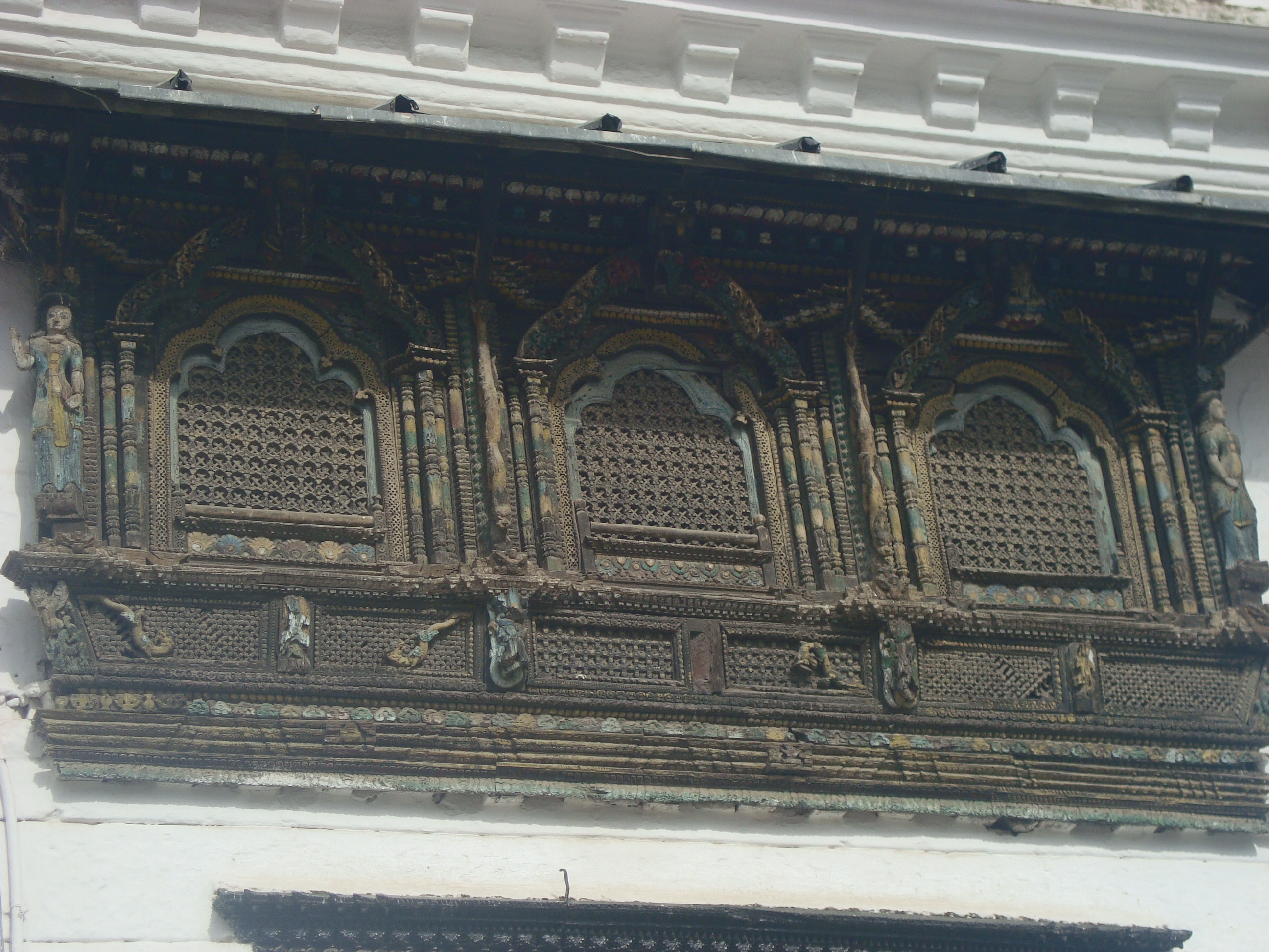 Cultural Window at Basantapur Durbar.